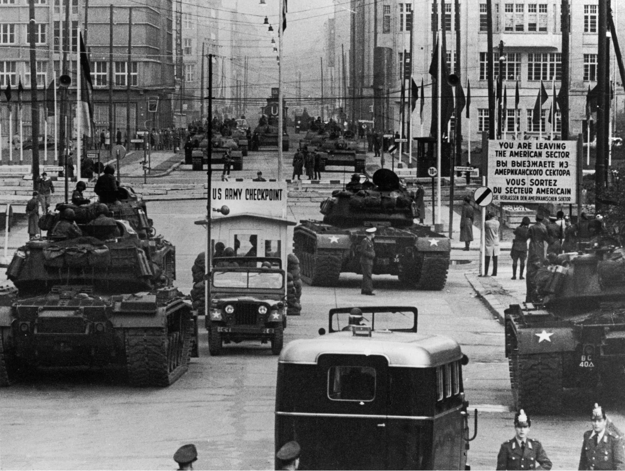 US Army tanks face off against Soviet armor at Checkpoint Charlie, Berlin, October 1961.